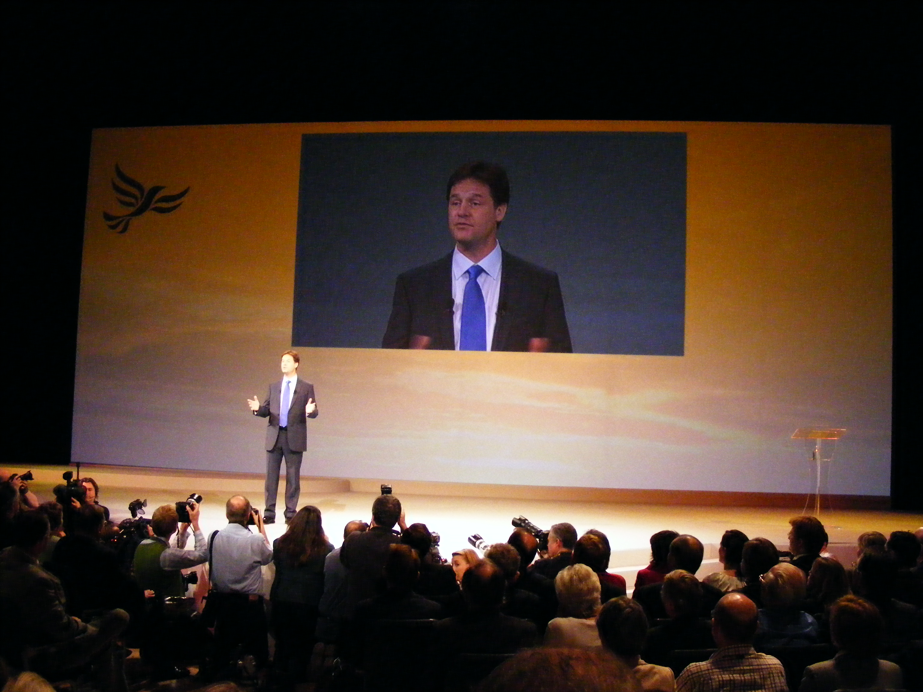 Nick Clegg addressing Conference